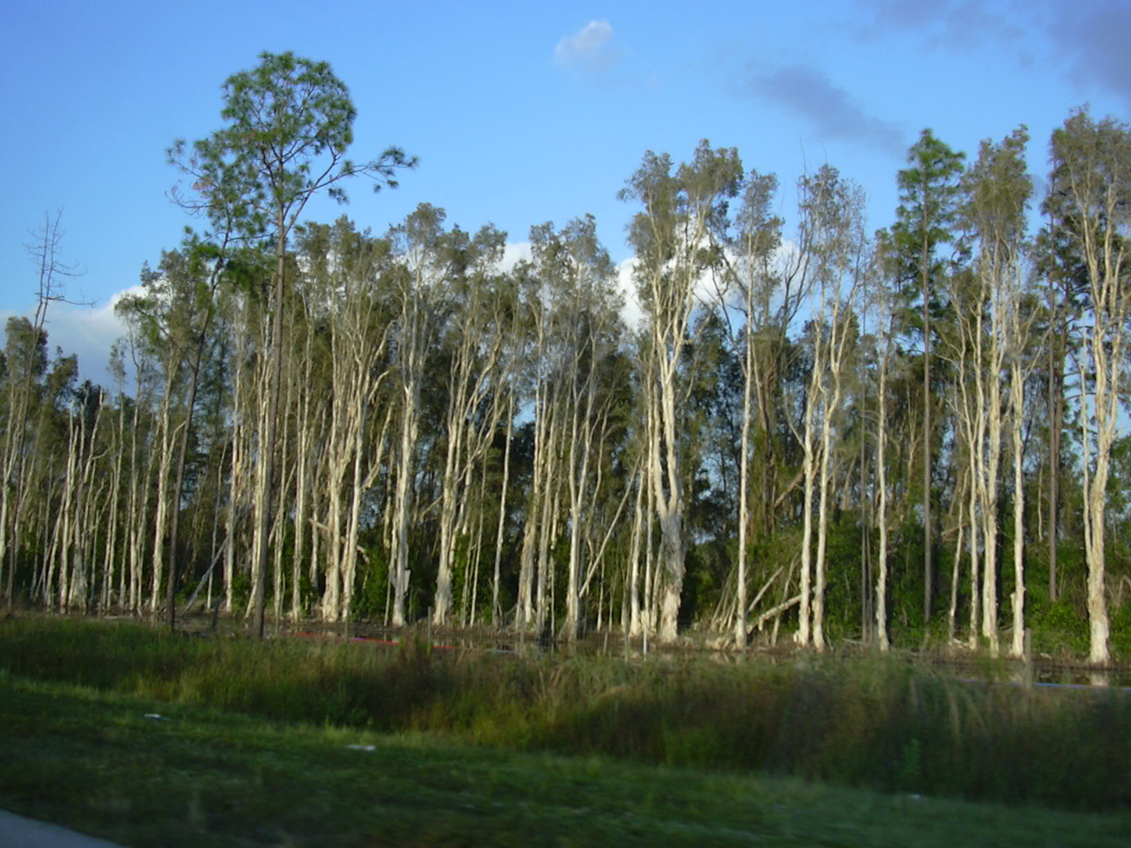 Melaleuca quinquenervia (habit). Location: Florida, Alligator Alley